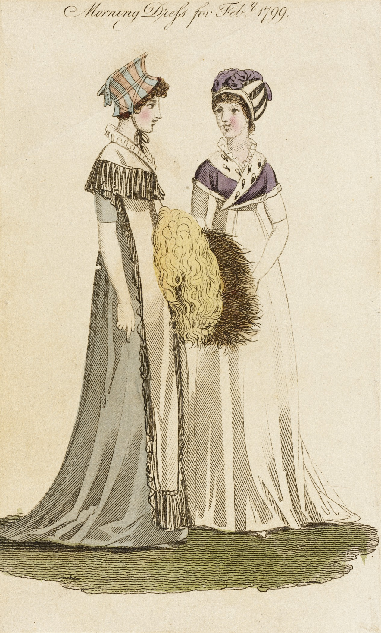 England, London, 1799 Prints; etchings Hand-colored etching on paper Gift of Dr. and Mrs. Gerald Labiner (M.86.266.15) Costume and Textiles